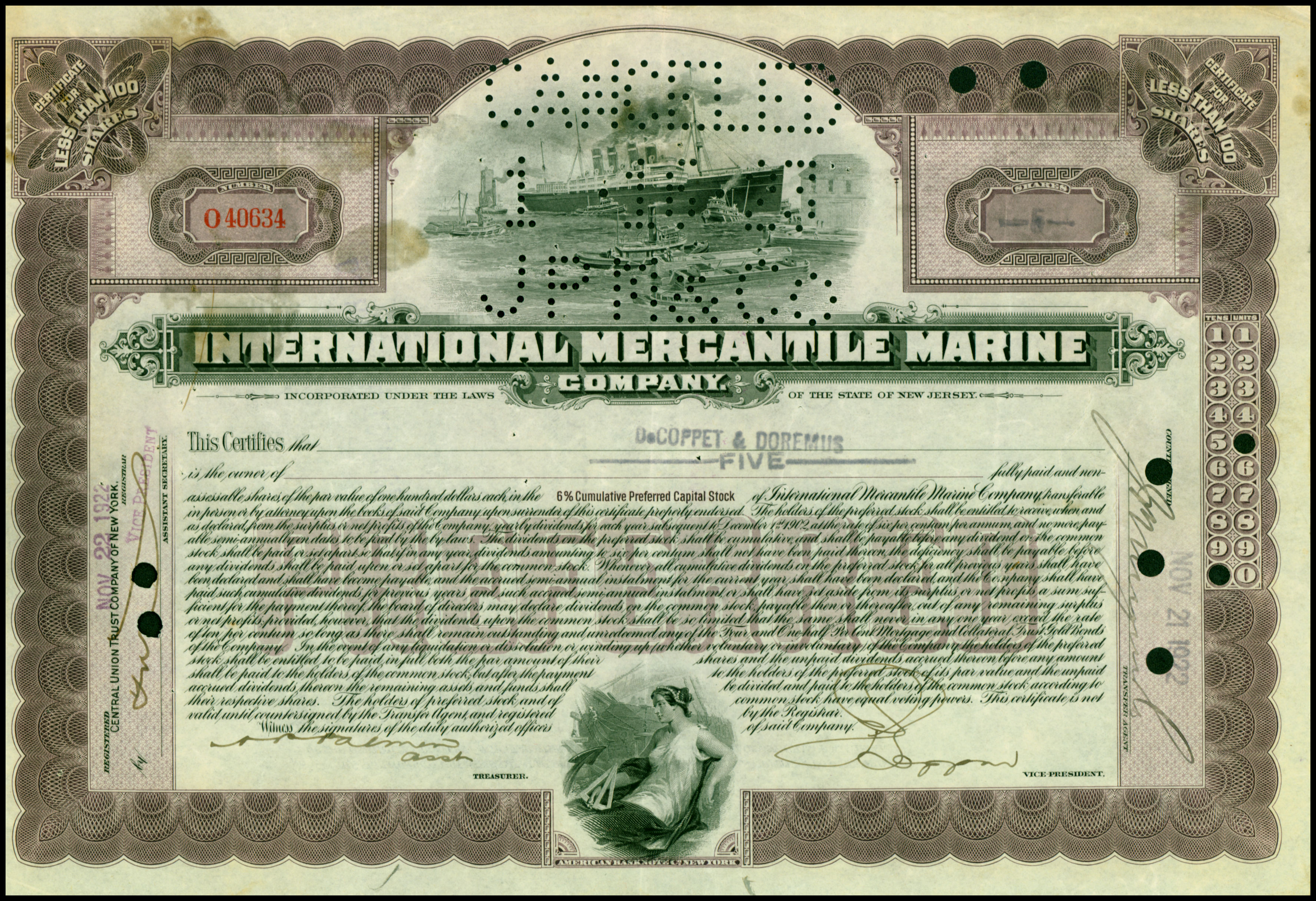 Prefered share of the International Mercantile Marine Company, issued 21. November 1922